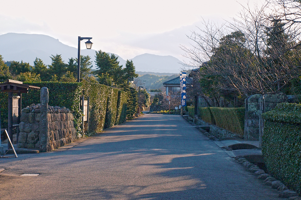 Kojirokuji Street in Unzen, Nagasaki prefecture, Japan.